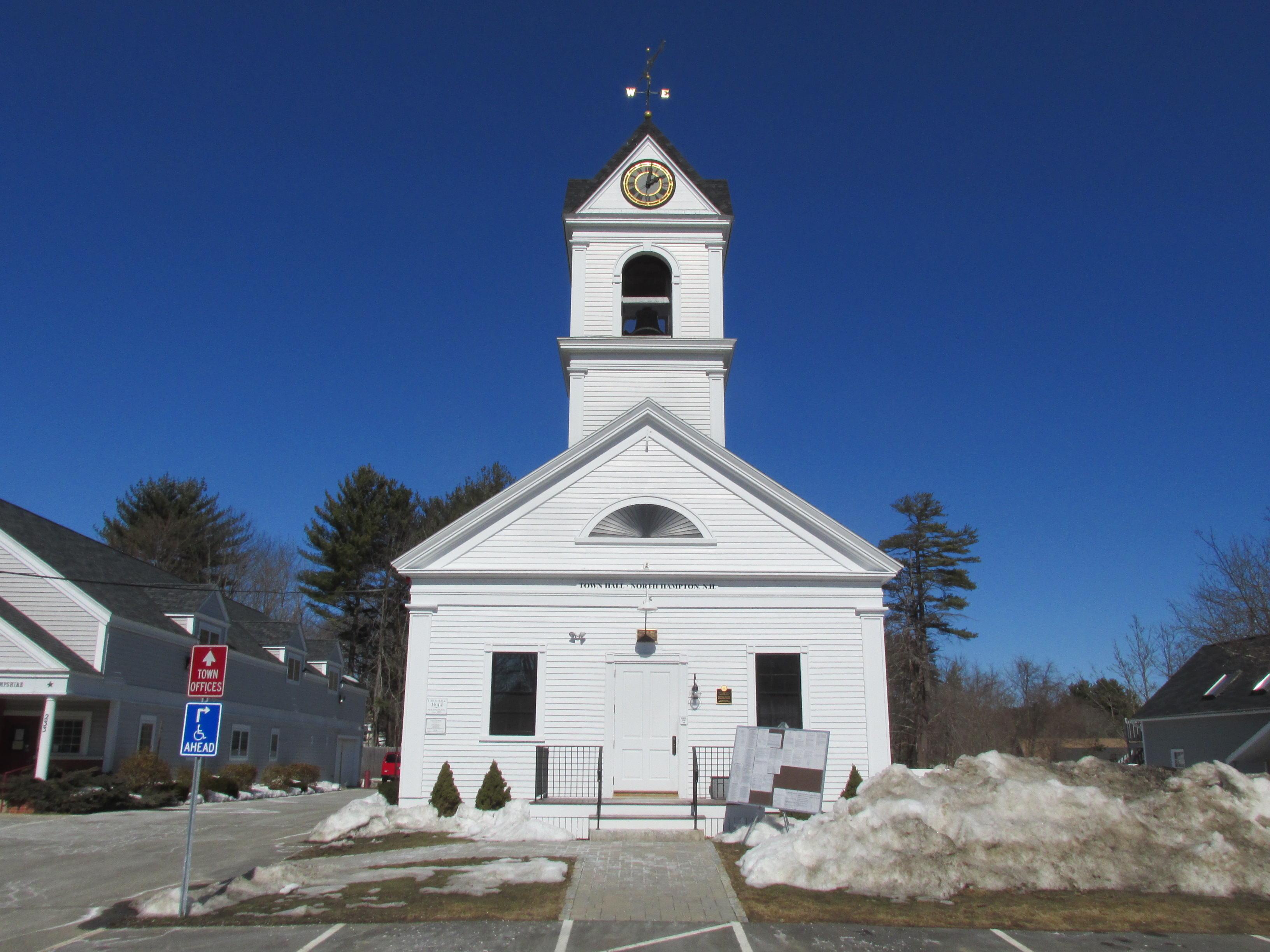 Town Hall, 1844, North Hampton New Hampshire - 2014